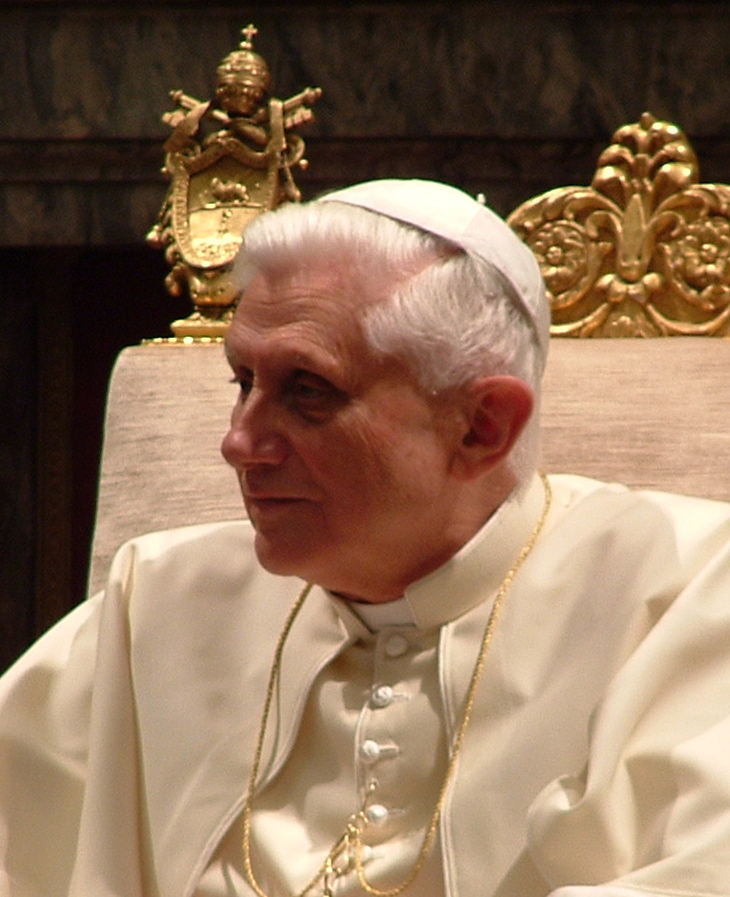 Pope Benedictus XVI at a private audience (January 20, 2006)